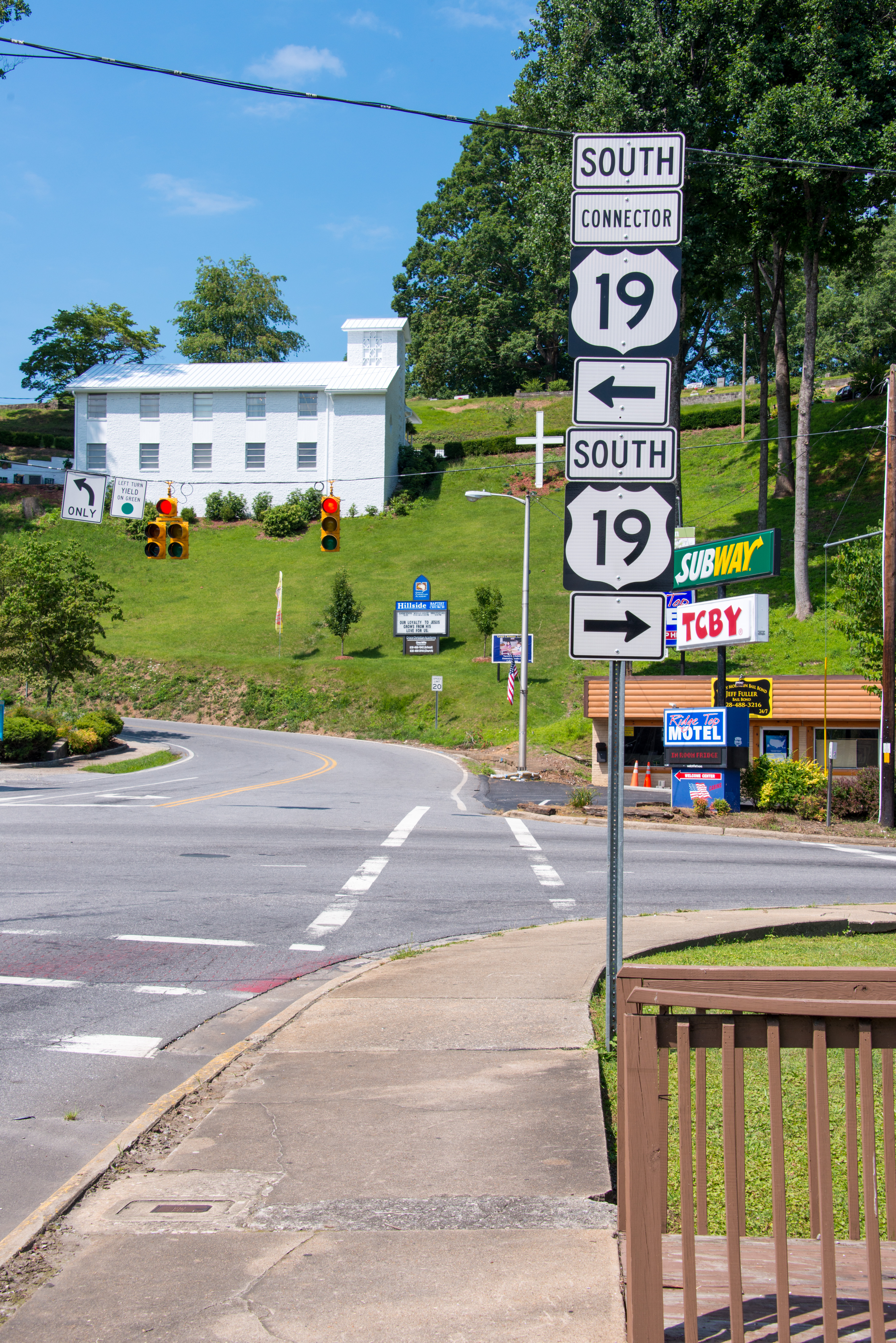 Picture of both U.S. Route 19 south and U.S. Route 19 Connector south, in Bryson City, North Carolina.